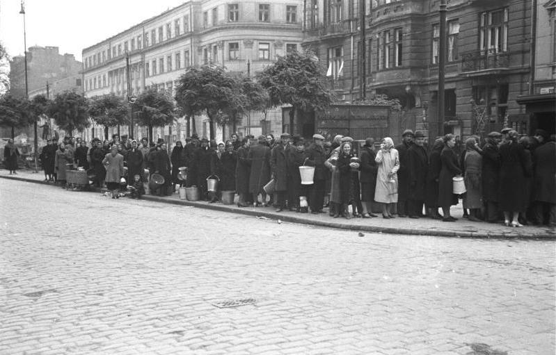 Warsaw during World War II